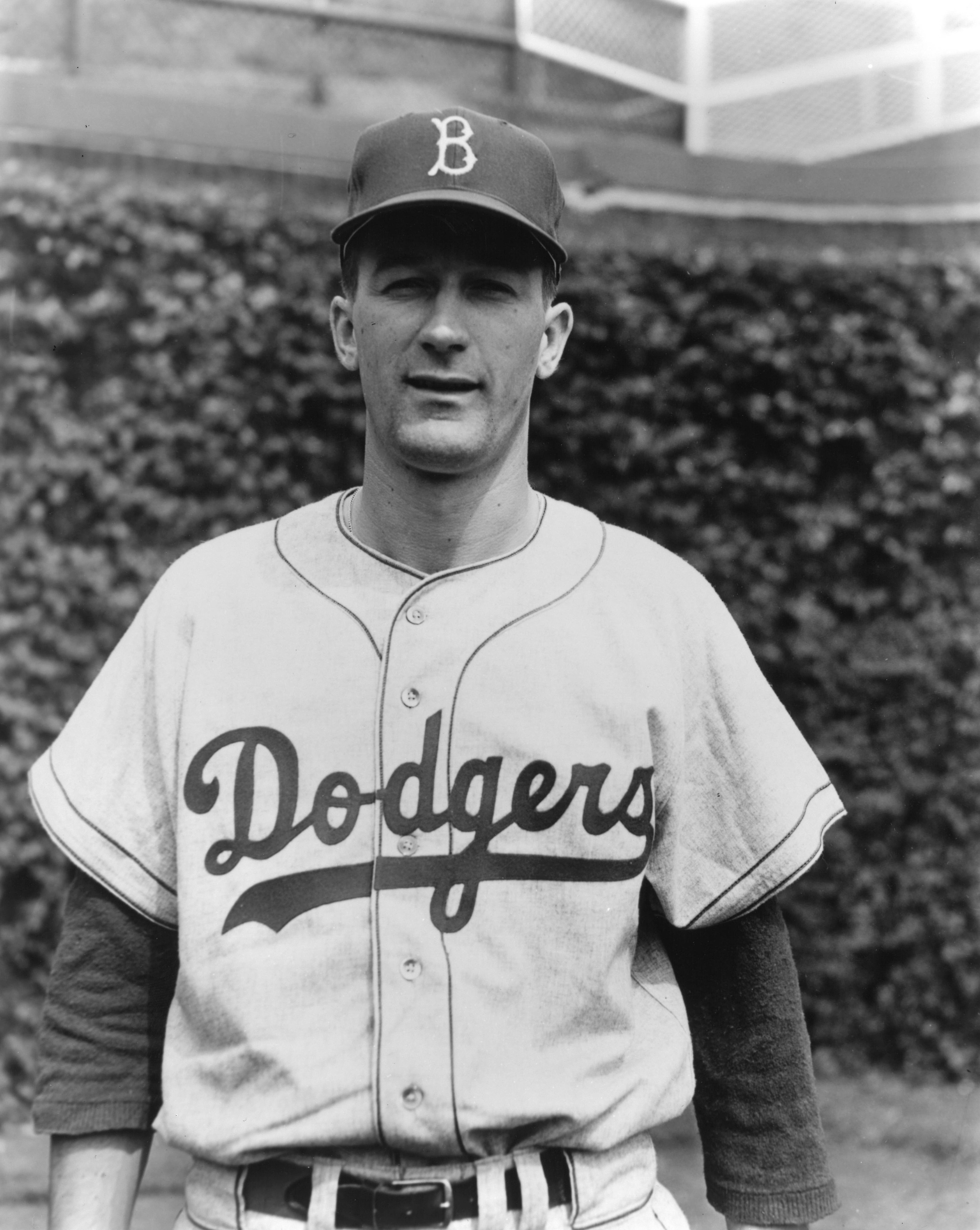 This picture was taken in Wrigley Field in 1957 when he pitched his first game.